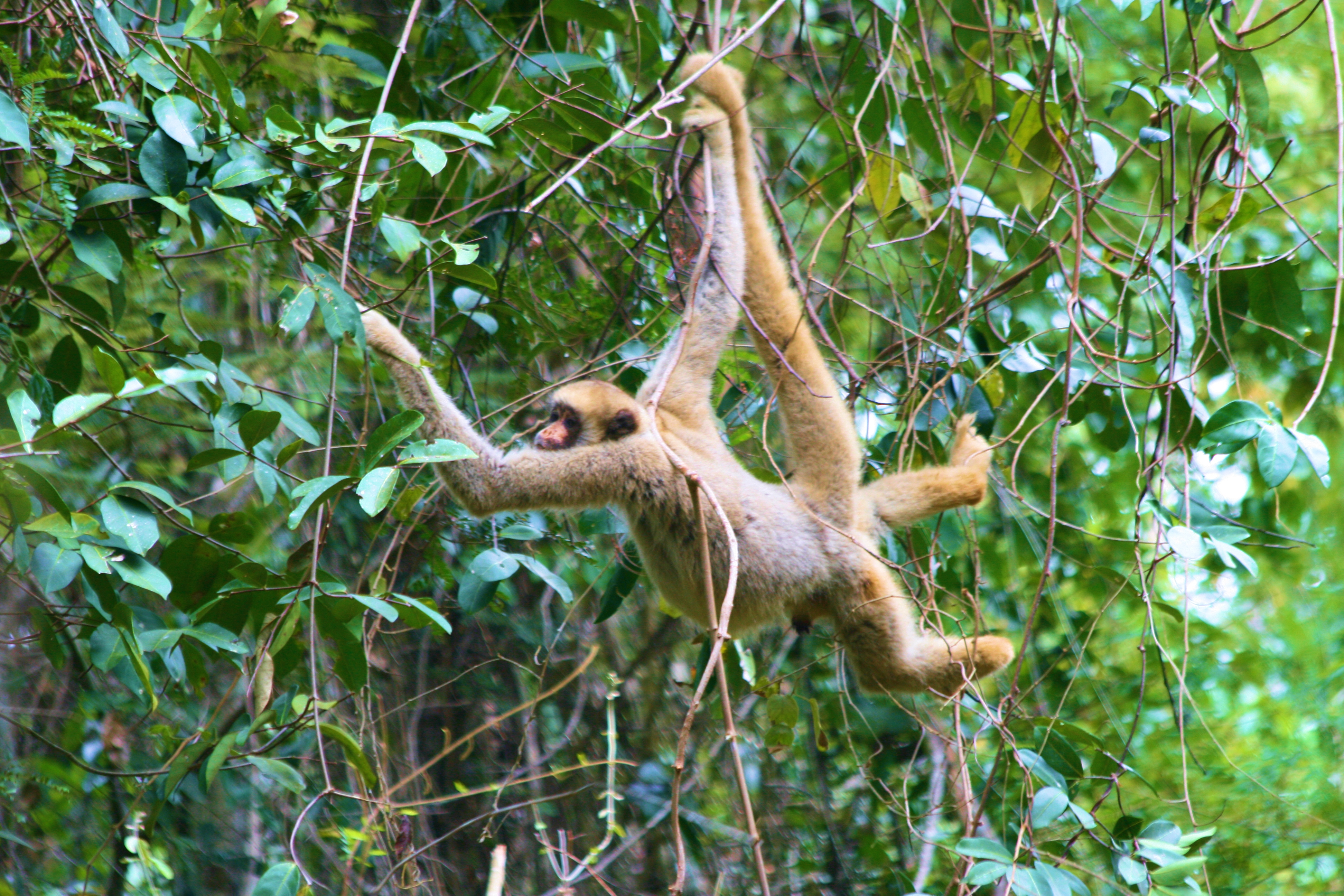 A northern muriqui (Brachyteles hypoxanthus) locomoting.